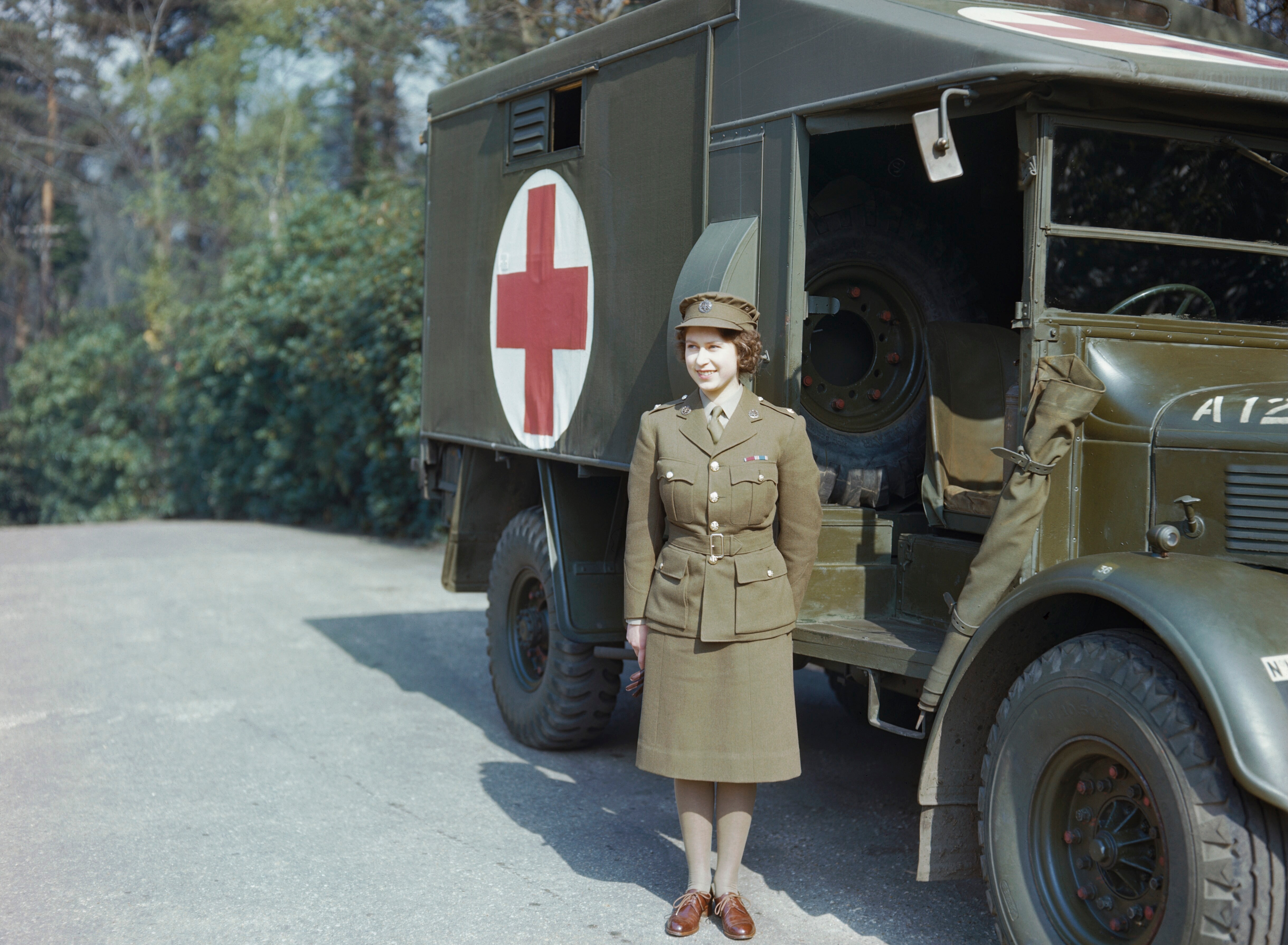 Hrh Princess Elizabeth in the Auxiliary Territorial Service, April 1945 Princess Elizabeth, a 2nd Subaltern in the ATS standing in front of an ambulance.